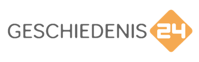 Logo of Geschiedenis 24